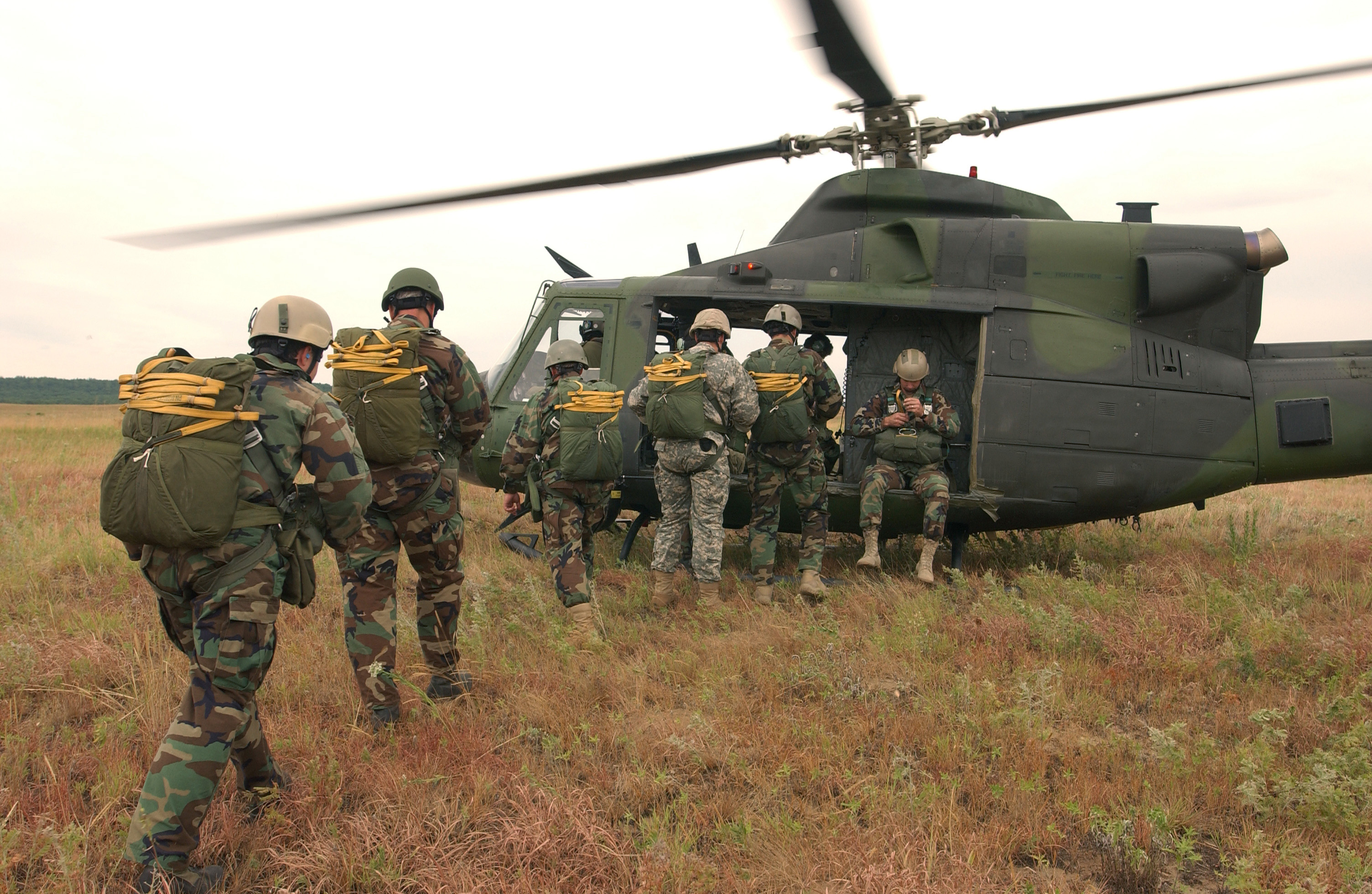 07/21/06 - U.S. Army National Guard paratroopers from 2nd Battalion, 20th Special Forces Group out of Chicago, Ill., and 116th Air Support Operations Squadron out of Fort Lewis, Wash., board a Canadian CH-146 Griffon helicopter from the 430th Helicopter Squadron out of Quebec City, Quebec, at Fort McCoy, Wisconsin, July 21, 2006, during exercise Patriot 2006. Patriot, the largest joint, annual exercise held in the United States, increases the war-fighting capabilities of the U.S. Air Force and Army National Guard, reserve, and active components as well as interoperability with the participating nations of Canada, United Kingdom, and the Netherlands. (U.S. Air Force photo by Master Sgt. Patrick J. Cashin) source